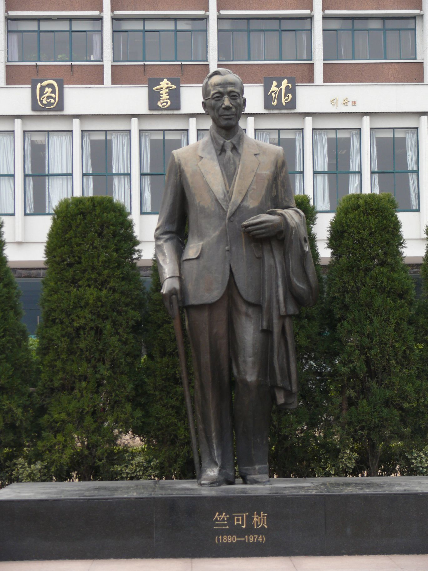 Yuquan campus of Zhejiang University (Hangzhou, China).